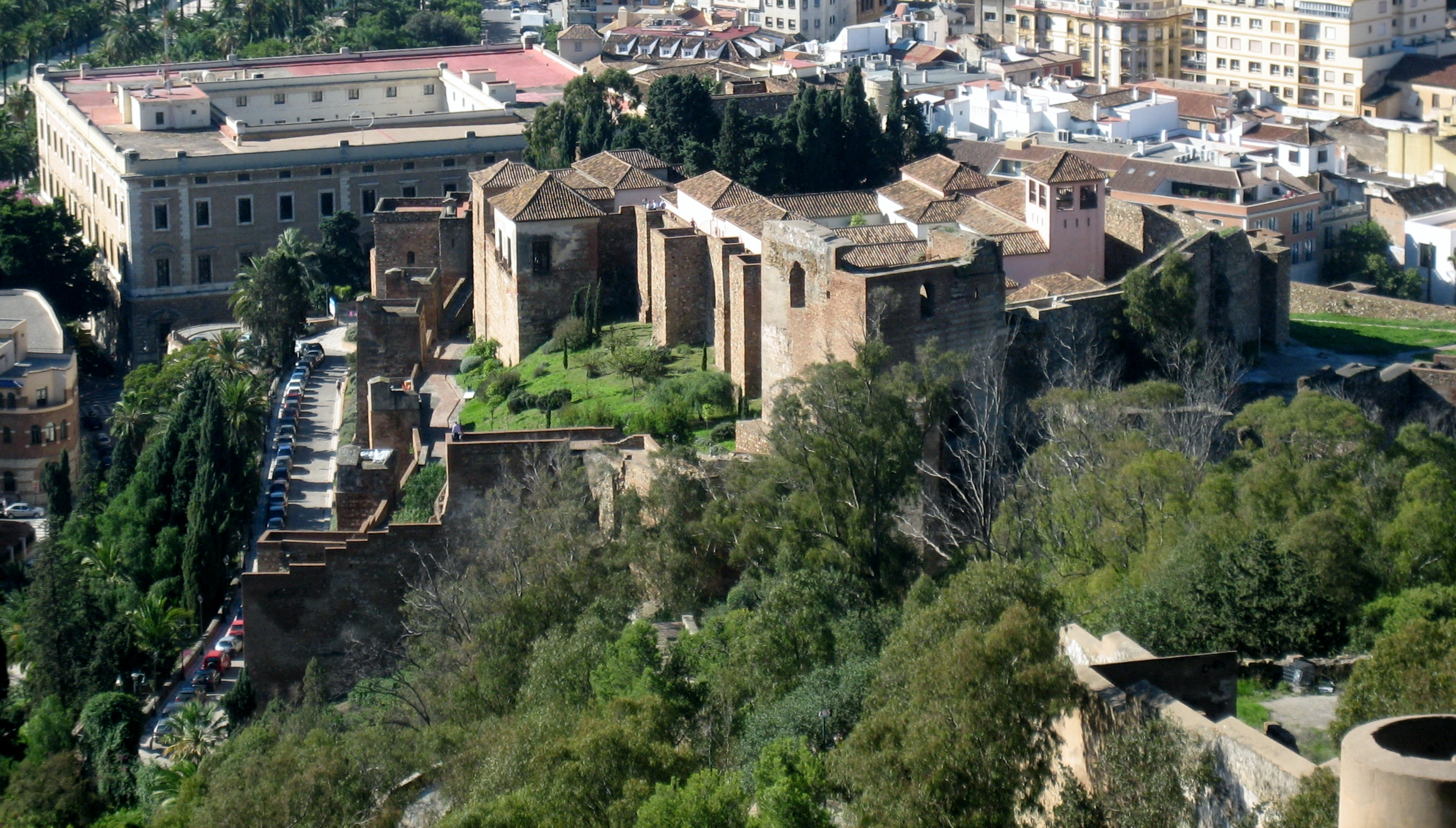 Alcazaba of Malaga from Castle of Gibralfaro